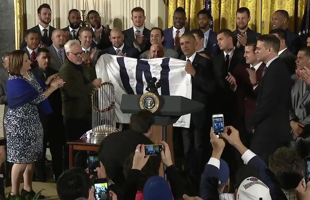 Obama presented with an autographed 'W' flag during the Chicago Cubs visit to the White House